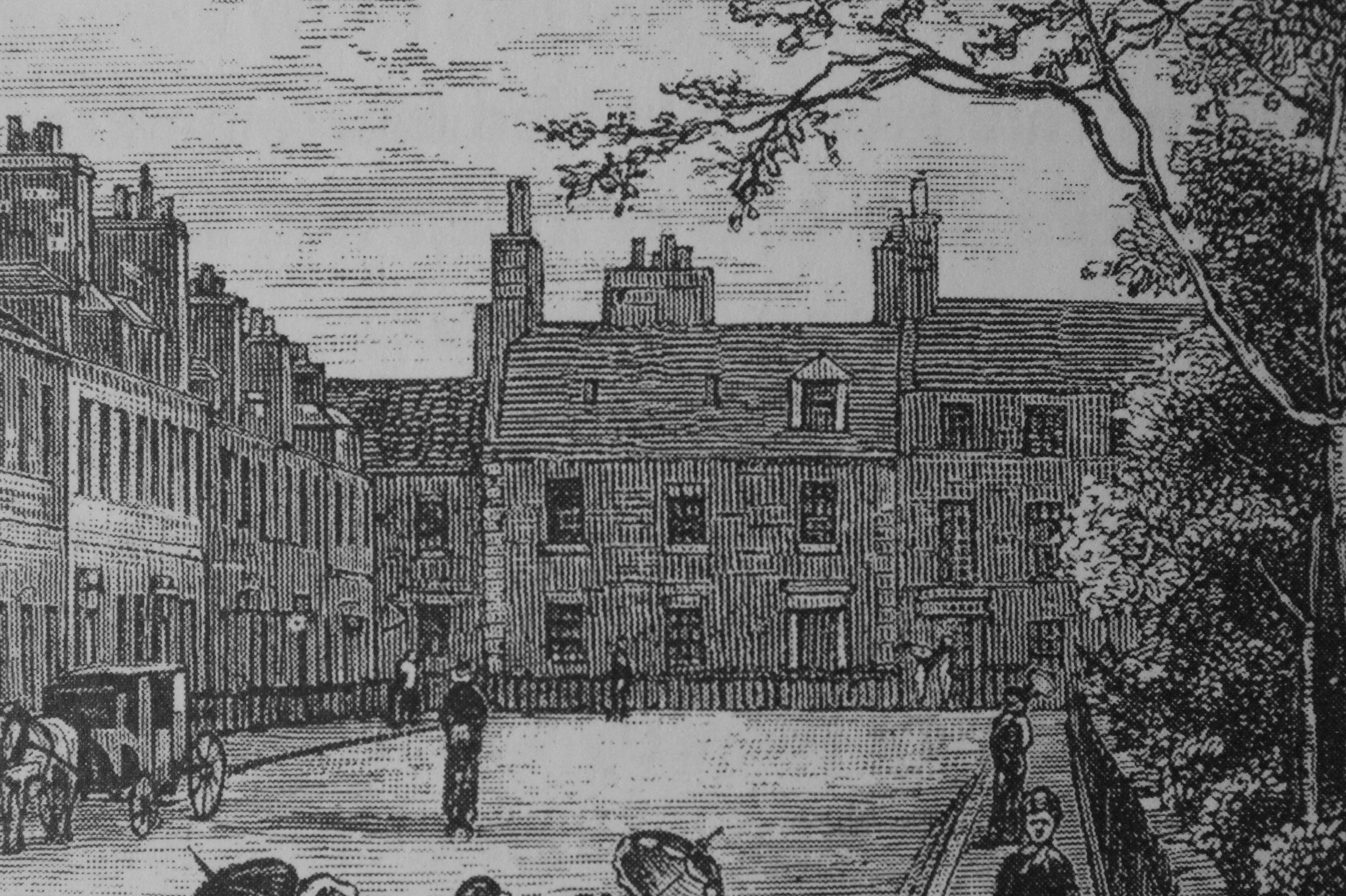 Etching of the north-west corner of George Square in Edinburgh (detail) c. 1830